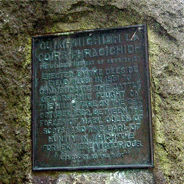 Corrichie Burn battle monument Battle 28th October AD1562. Plaque on north face.